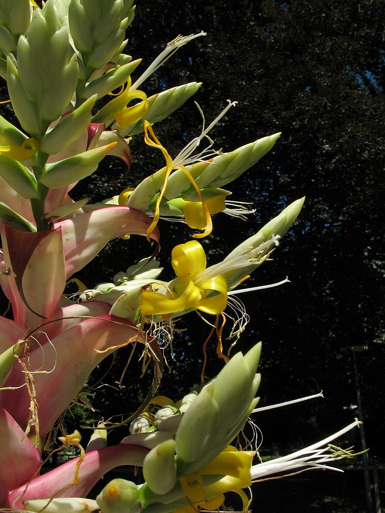 Alcantarea regina, in cultivation at the Botanical Garden of Heidelberg, Germany.